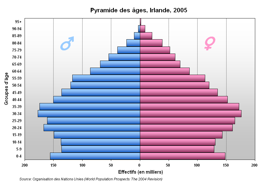 Ireland Population pyramid, 2005